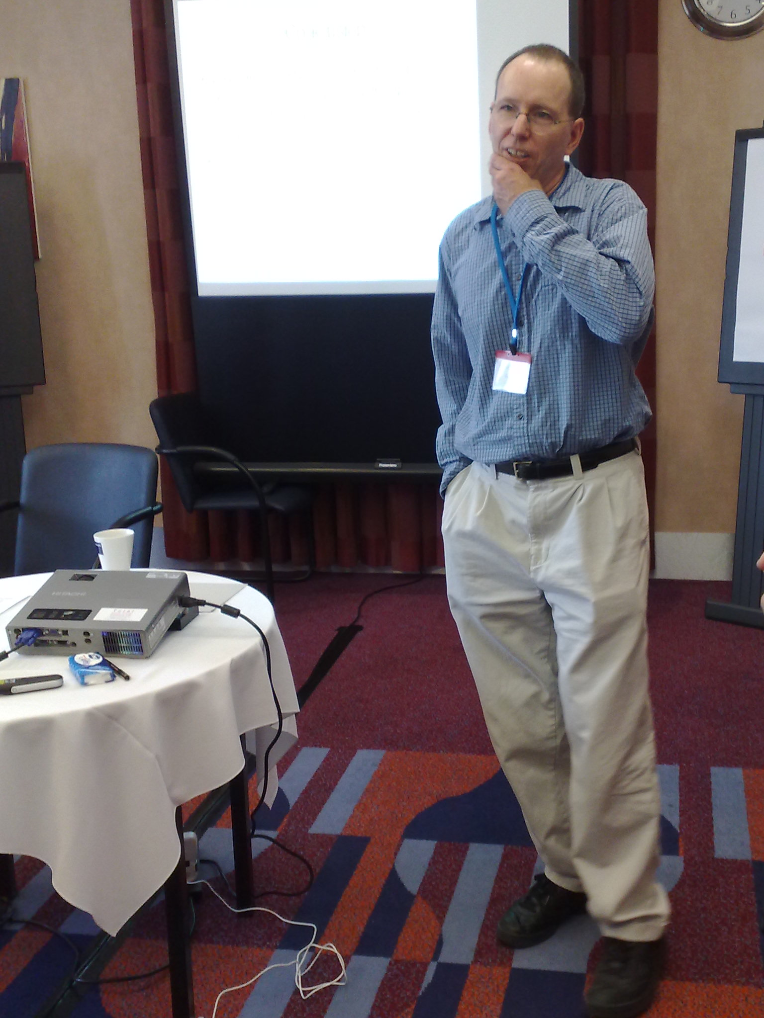 Walter Bright at the ACCU 2009 conference